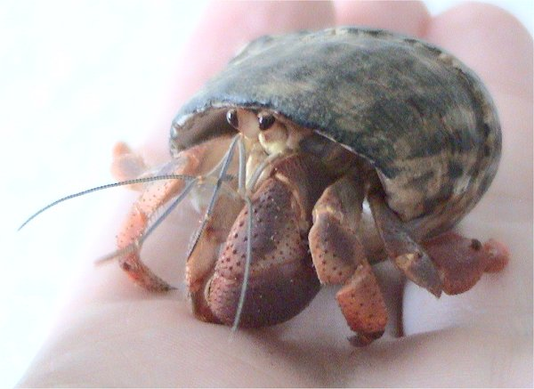 Caribbean hermit crab (coenobita clypeatus) in a shell of Cittarium pica.